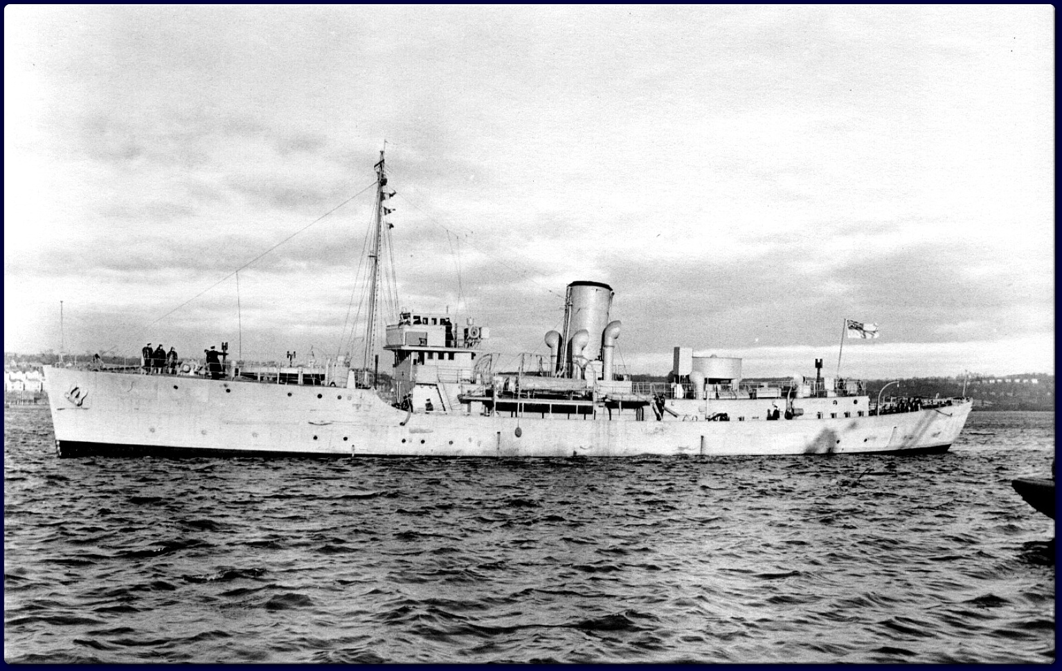 Photograph of Canadian corvette HMCS Windflower during acceptance trials in 1940. Most of the ship's armament has not yet been fitted.